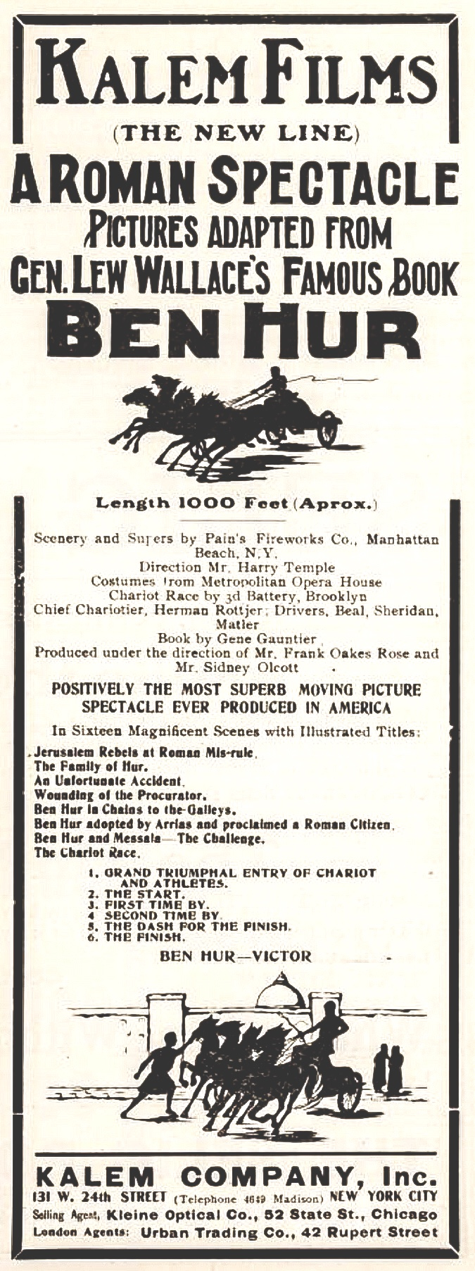 Advertisement for 1907 film Ben Hur with heading "KALEM FILMS"; published in the trade journal The Moving Picture World (New York, N.Y.), December 7, 1907, p. 649; includes two black, hand-drawn silhouettes representing the chariot race featured as part of the novel Ben Hur (1880) by Lew Wallace.